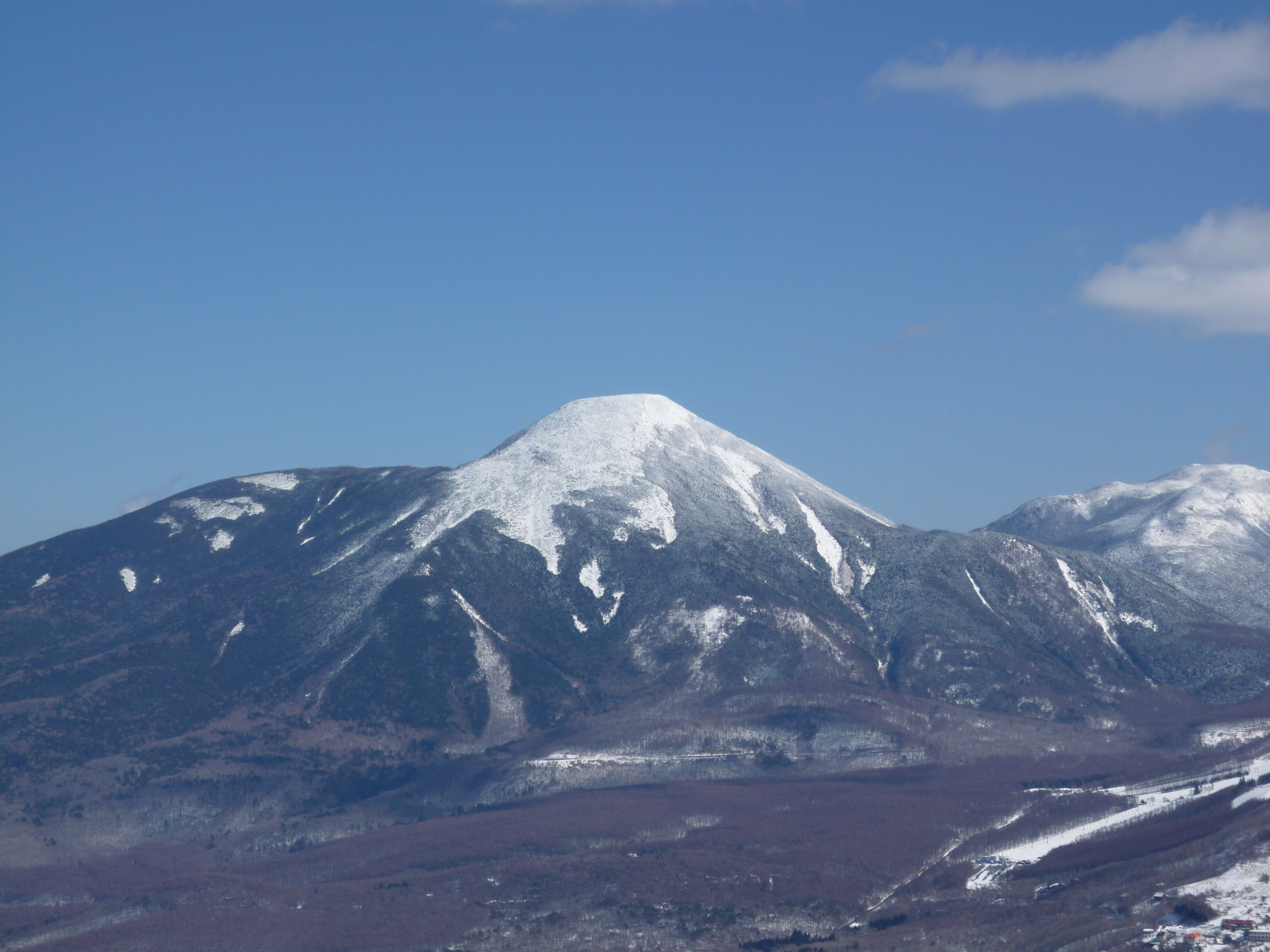 Mount Tateshina seen from the due west. Taken from top of Mount Kuruma.